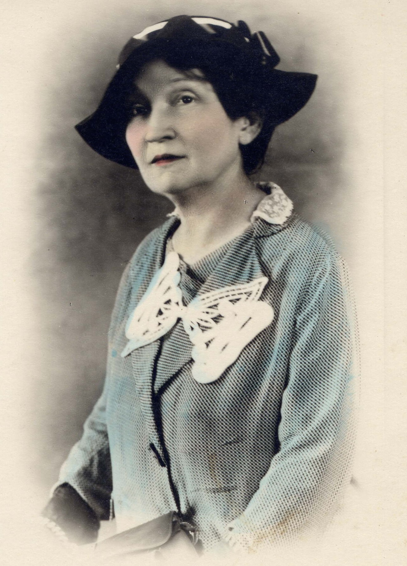 Photograph of Jelica Belović-Bernađikovska (1870 — 1946), Serbian ethnographer, writer and editor. Srpski (latinica): Fotografija Jelice Belović-Bernađikovske (1870 — 1946), etnografkinje, književnice i urednice.